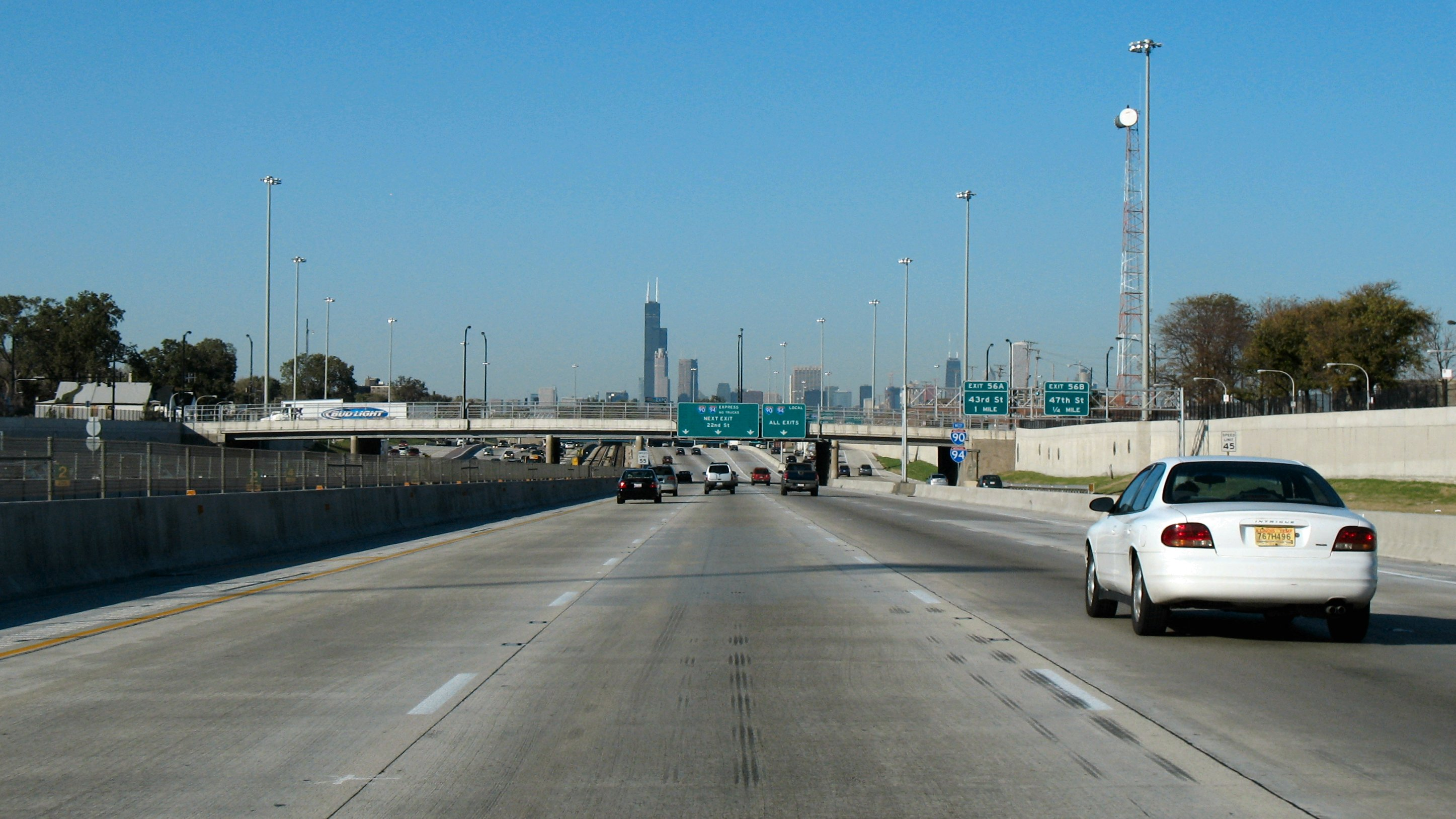 Northbound Dan Ryan Expressway in Chicago, Illinois. Photo taken October 2007.